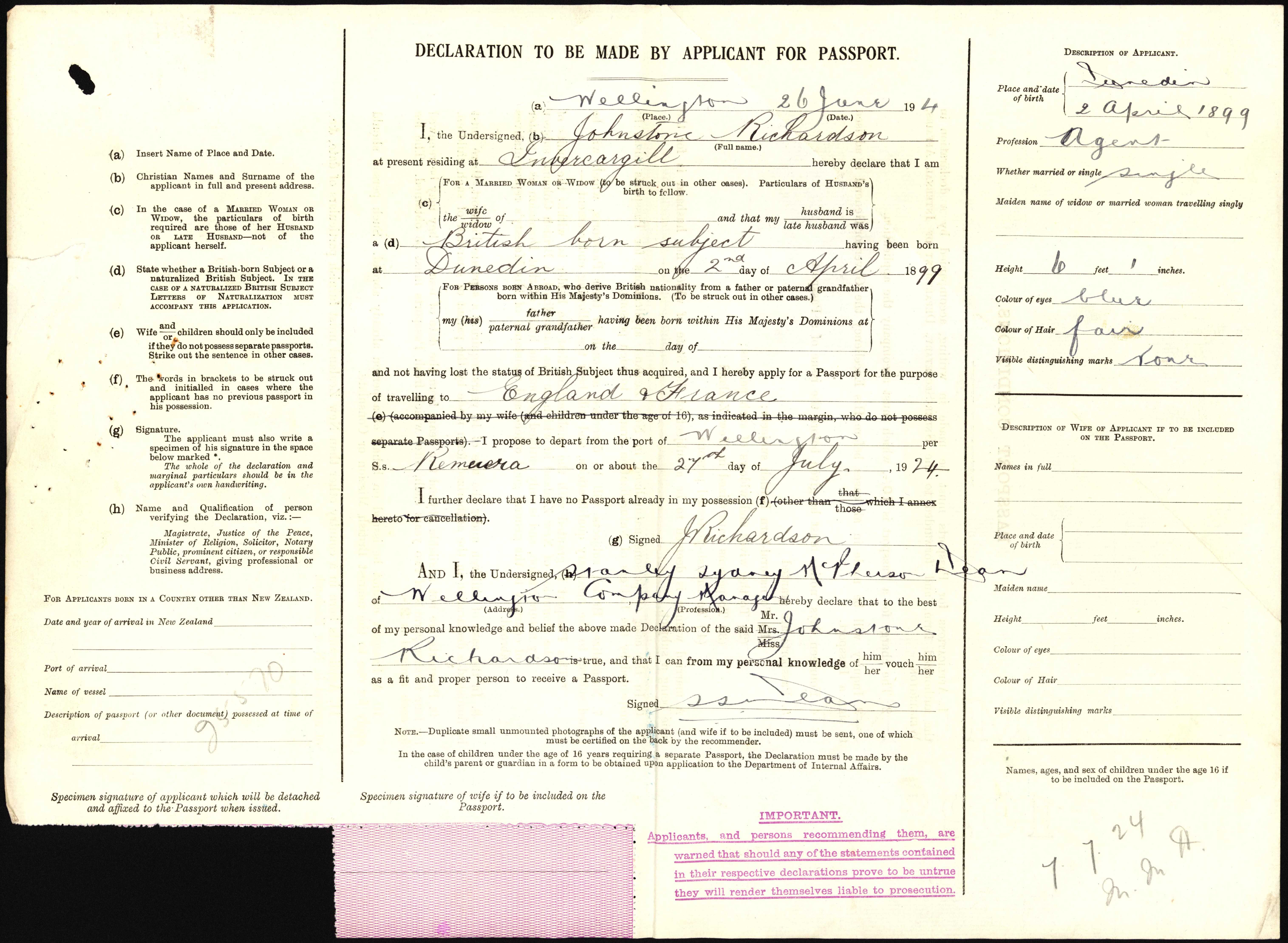 ACGO 8333 IA1 1349 / 15/11/17721 Johnstone Richardson passport application (1924)